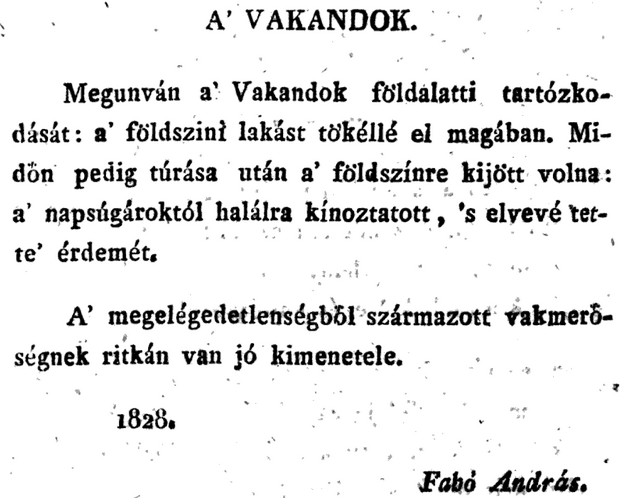 Work of Fabó András